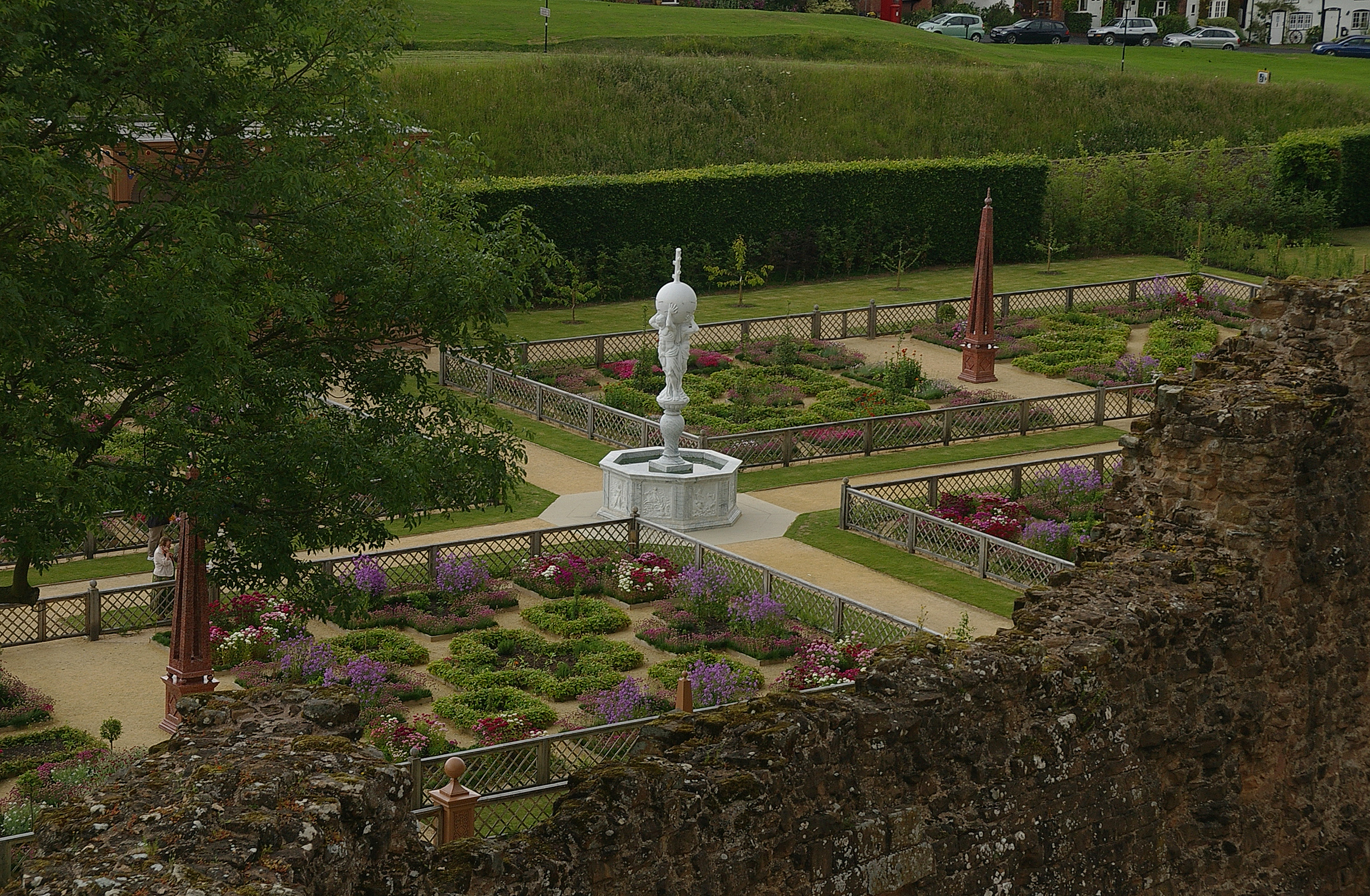 Kenilworth Castle - Elizabethan garden.